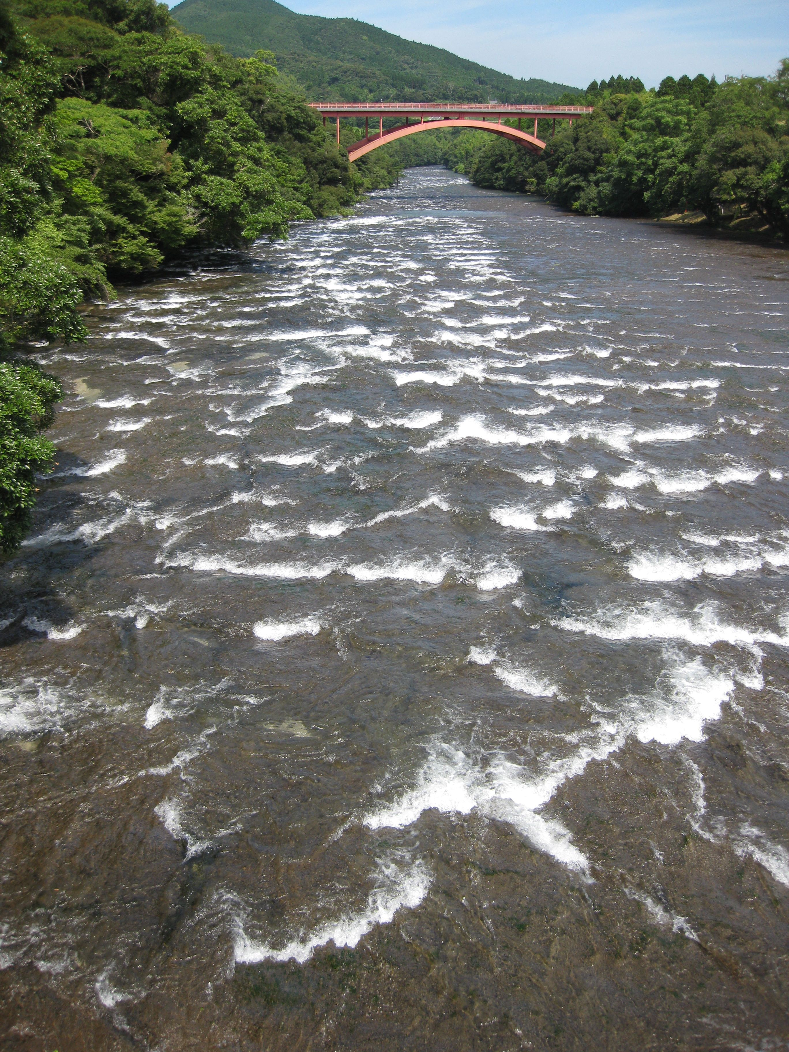 Ignimbrite Riverbed Named 'Hanaze' at Kagoshima, Japan